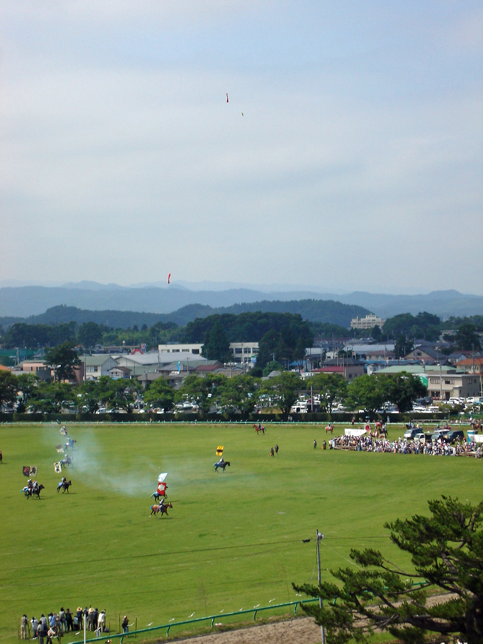 The Soma Nomaoi festival: Shinki sodatsusen (sacred flag competition)